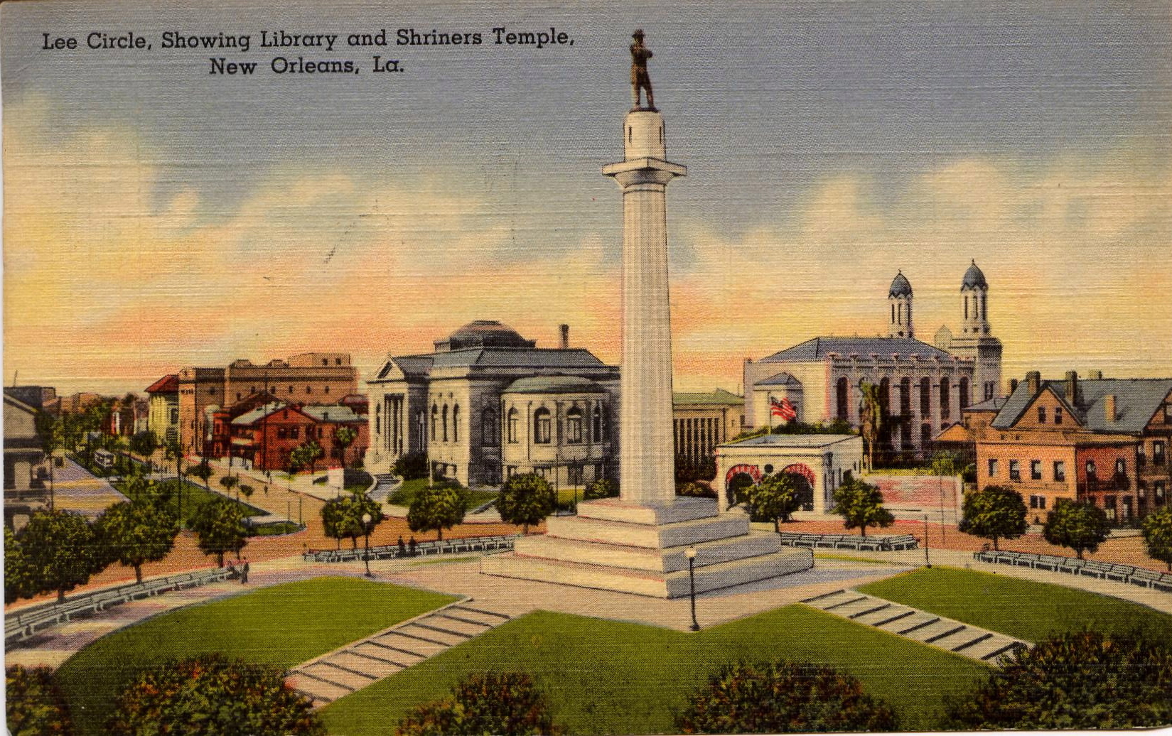 Lee Circle — a park in New Orleans. Photo-postcard view from between the World Wars. In park's center is a column monument, with the statue of Robert E. Lee. St. Charles Avenue heading uptown is seen at right, long before this was bisected by the Pontchartrain Expressway/Crescent City Connection bridge onramp. The "Shriners Temple," refered to in the caption is the Jeruselem Temple, is the orange building a block up St. Charles from the Circle. Several buildings gone for decades are visible. The neo-Classical building just to the left of the pilar was the old Main branch of the Public Library, built in 1908 and demolished in 1959. The Short rectangular building with a pair of arches on its fascade and a flag flying on top was the Sherrouse-Steele Motor-Car Company building, originally a dealership in "Reo" and "Premier" automobiles. Behind it with two towers is the Temple Sinai synagogue, built in 1872.